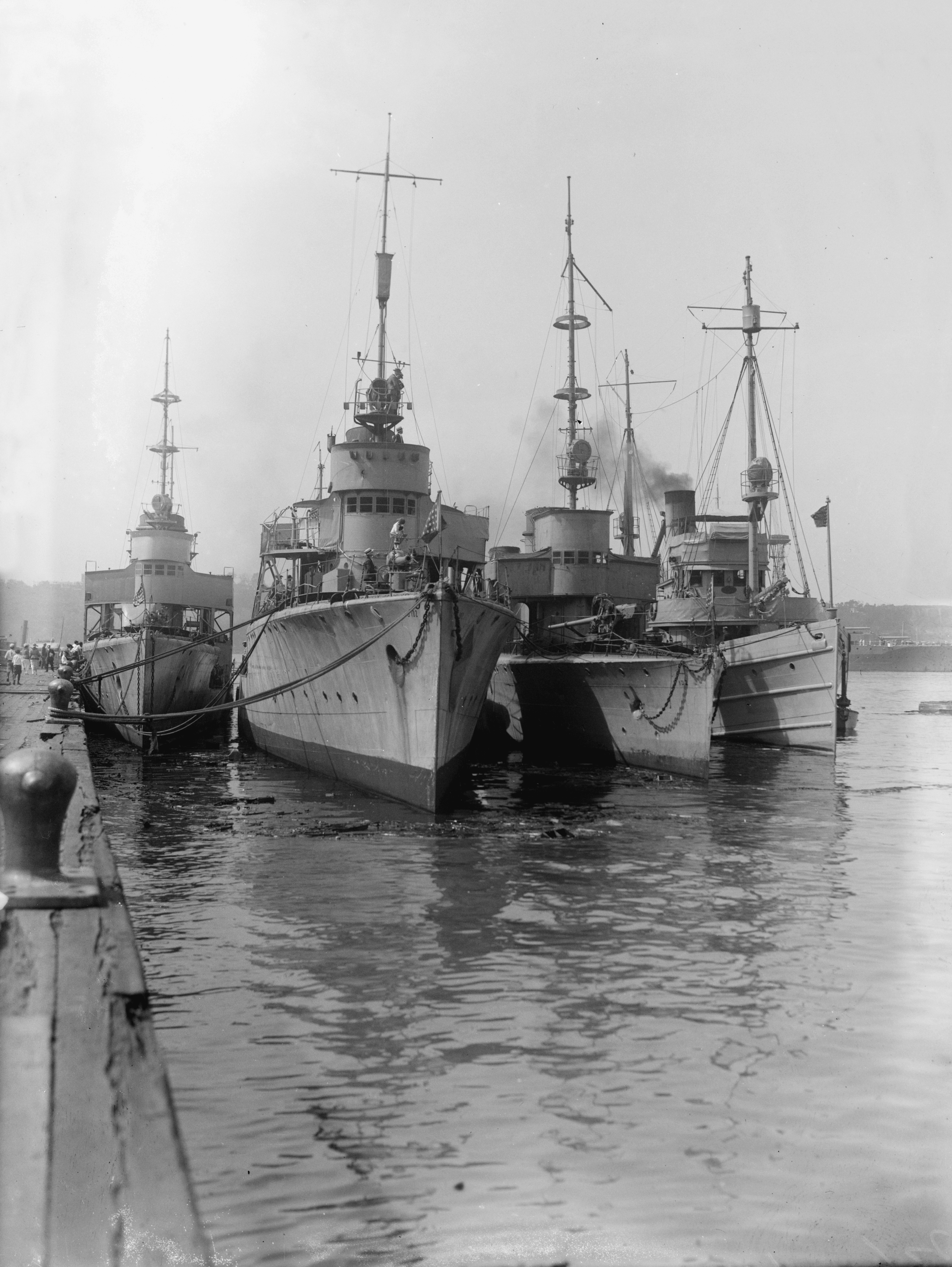 German destroyers at New York, about August 1920. The destroyers G 102 (center), S 132, and V 43 were brought to the United States in 1920, together with the cruiser Frankfurt and the battleship Ostfriesland. The ship on the right is probably a U.S. tug.